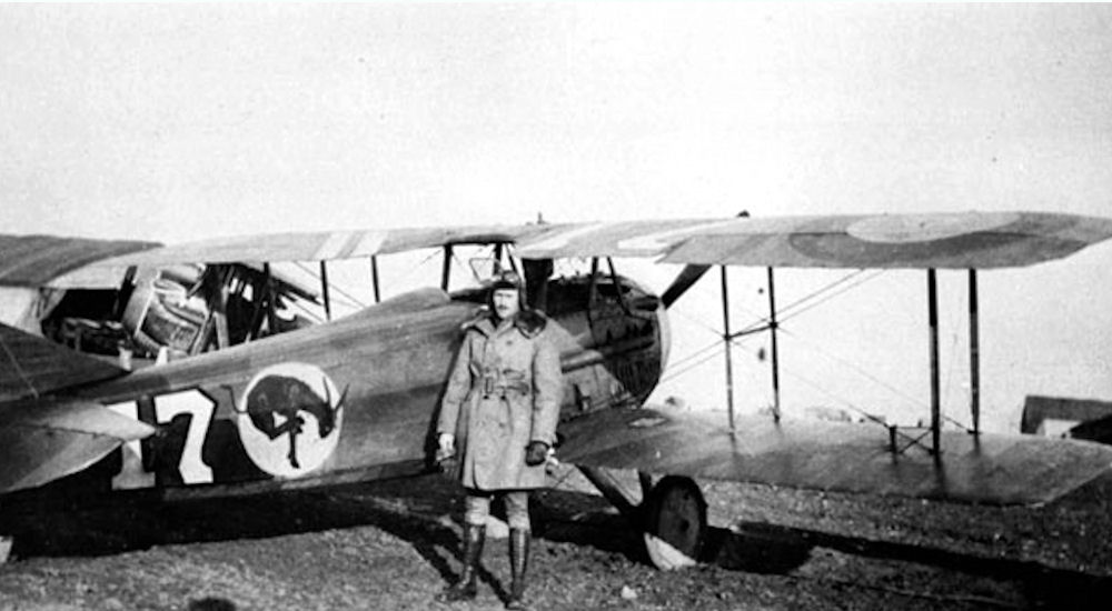 Spad XIII pursuit aircraft of the 95th Aero Squadron, Rembercourt Aerodrome, France, November, 1918